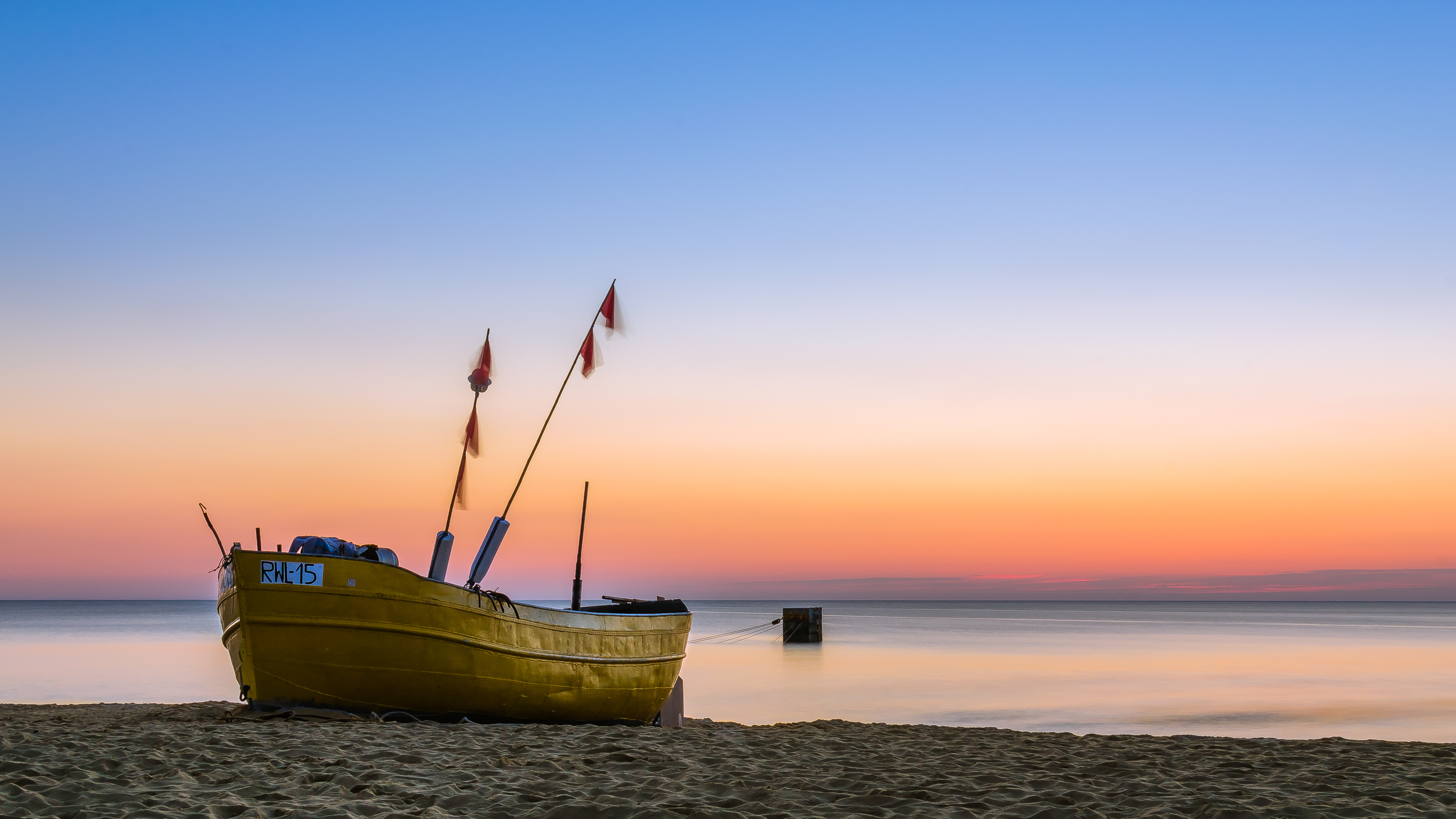 Rewal beach. Special Area of Conservation "Trzebiatowsko-Kołobrzeski Pas Nadmorski". This is a photography of Natura 2000 protected area with ID PLH320017